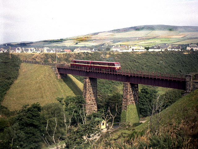 Diesels on Glen Wyllin viaduct: The ex-County Donegal Railways diesel cars Nos. 19 and 20 cross Glen Wyllin viaduct with a service to Ramsey in August 1964.